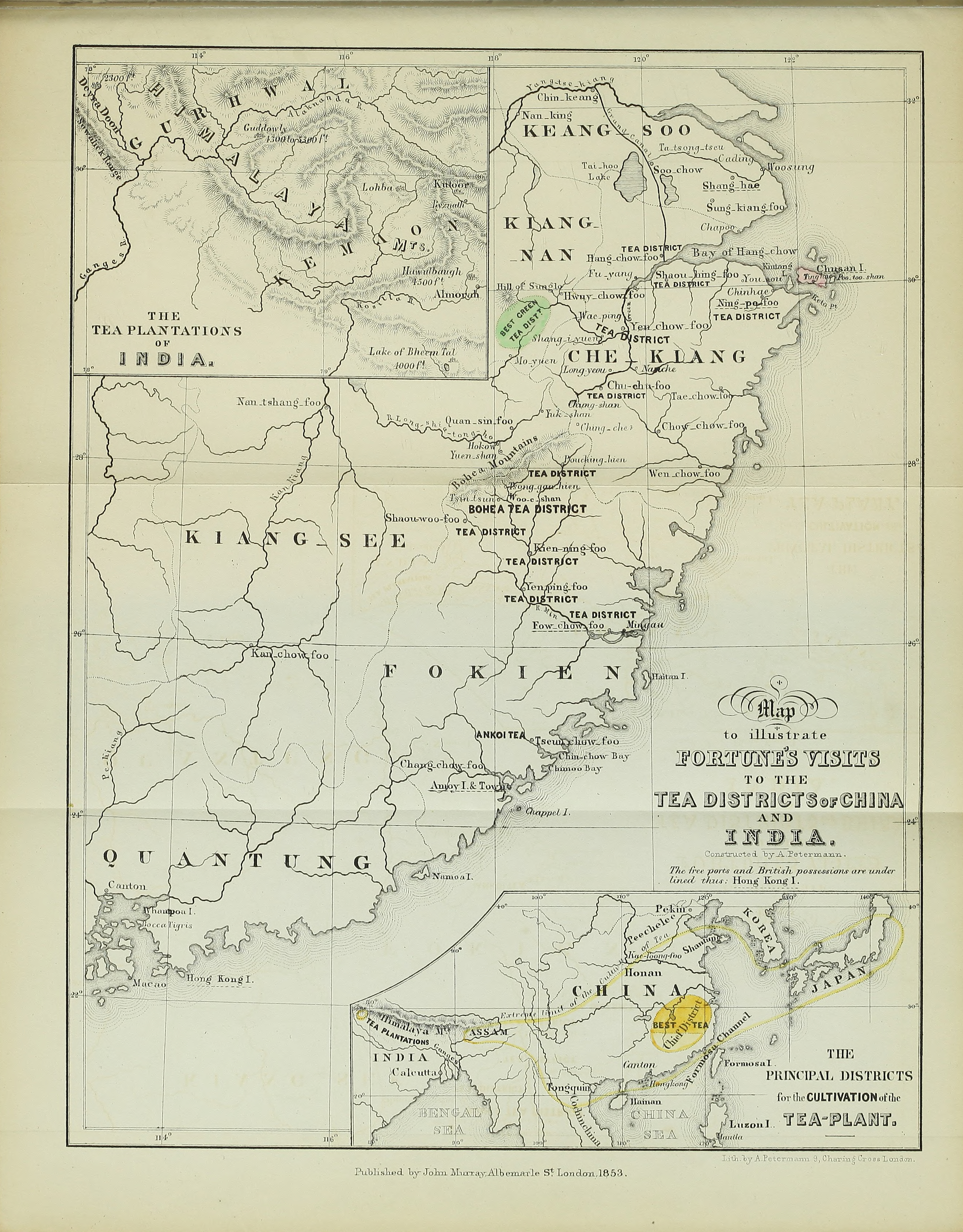 Map to illustrate fortune's visits to the Tea districts of China and India. Constructed by August Heinrich Petermann, 1853